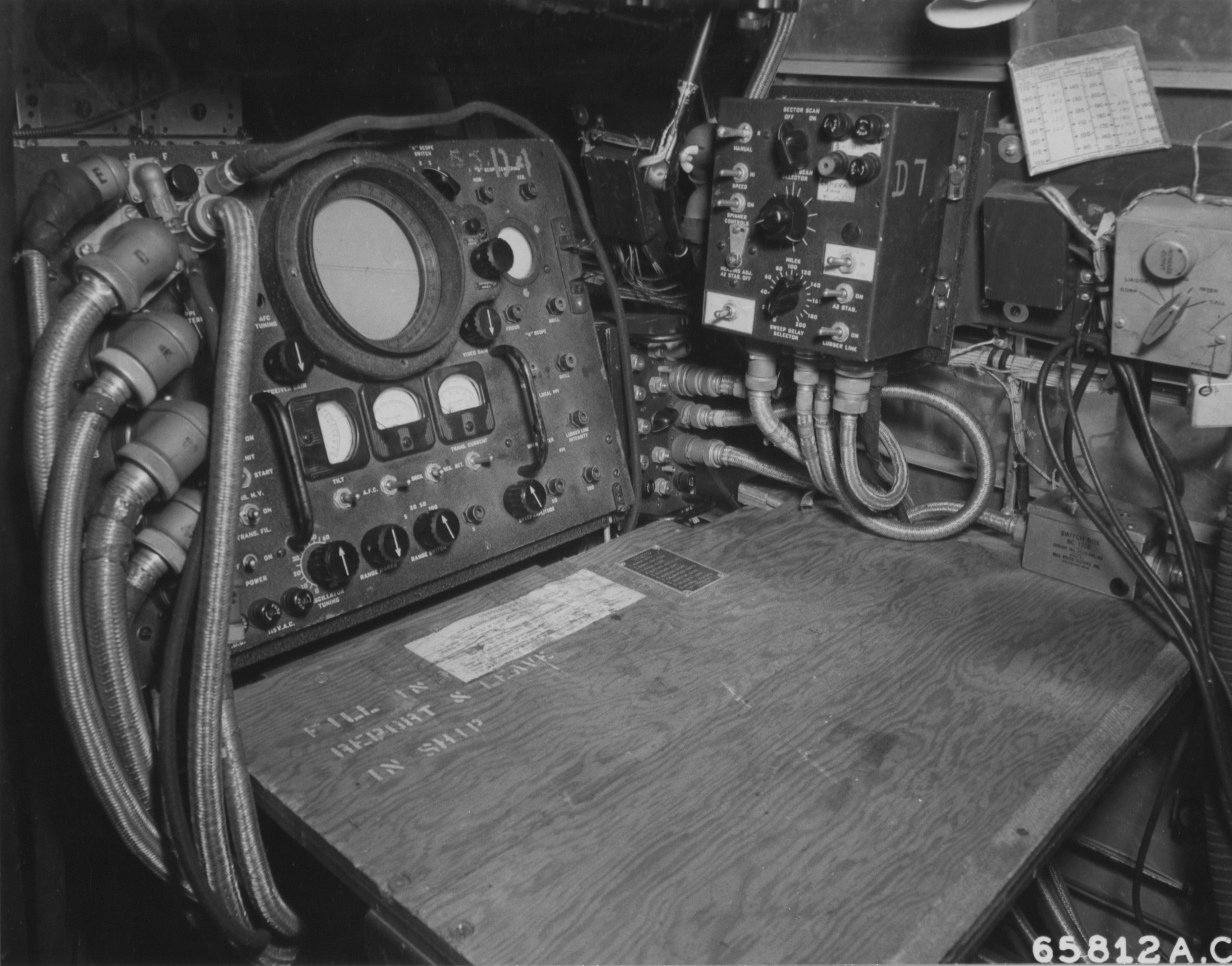 The H2X was a USAAF ground-scanning radar based on the British H2S. Here it is seen installed in the navigator's location in a B-17 Flying Fortress.